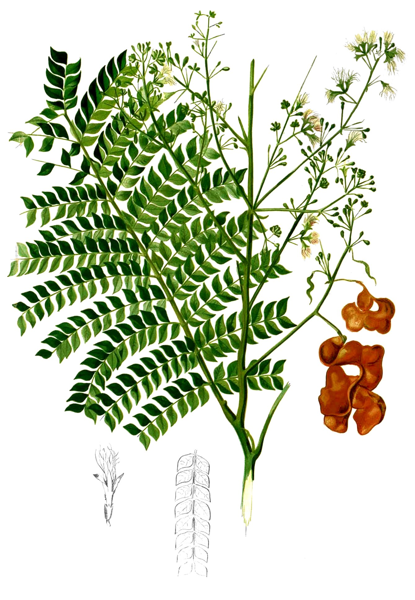 Plate from book